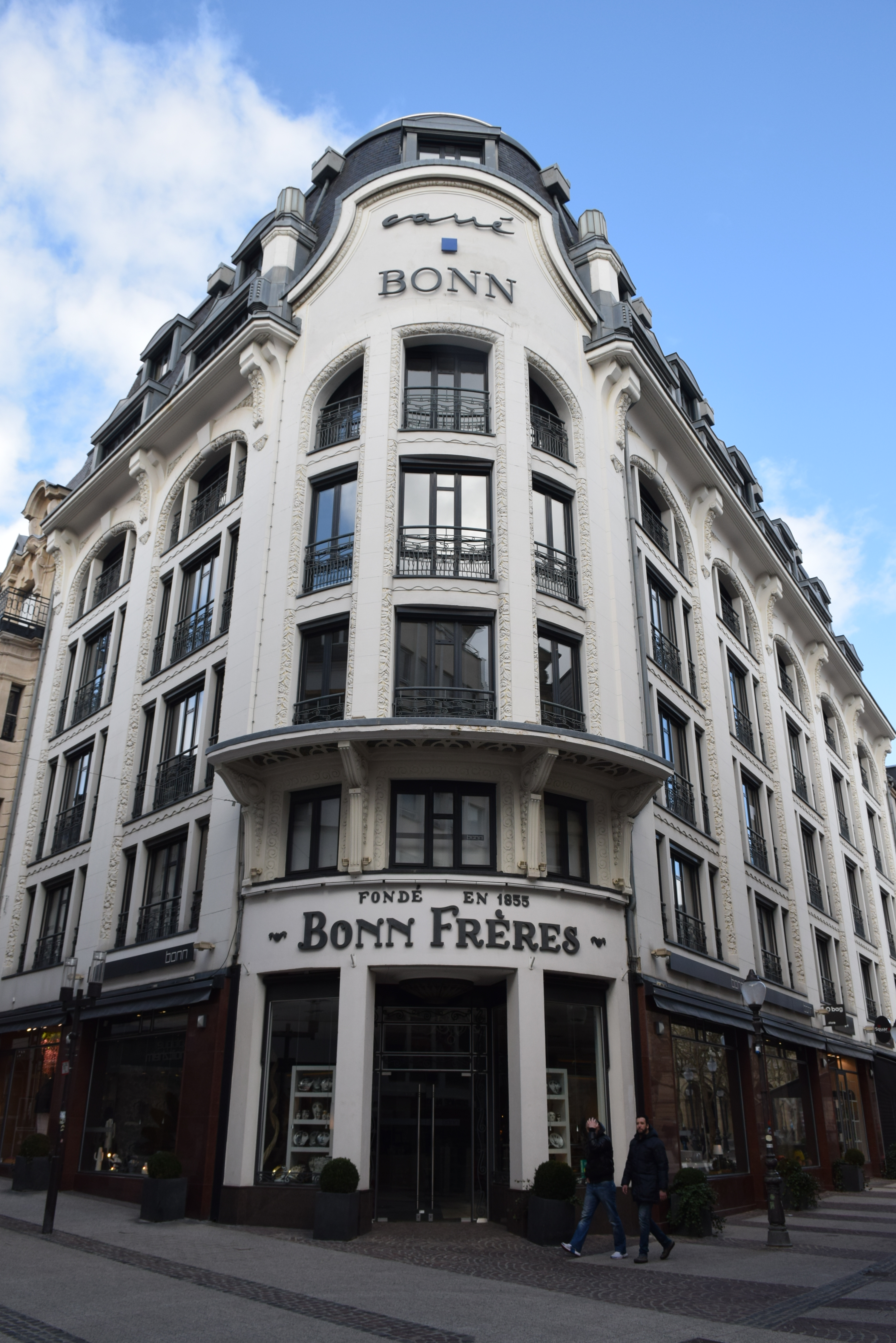 Maison Bonn Frères, Luxembourg City.